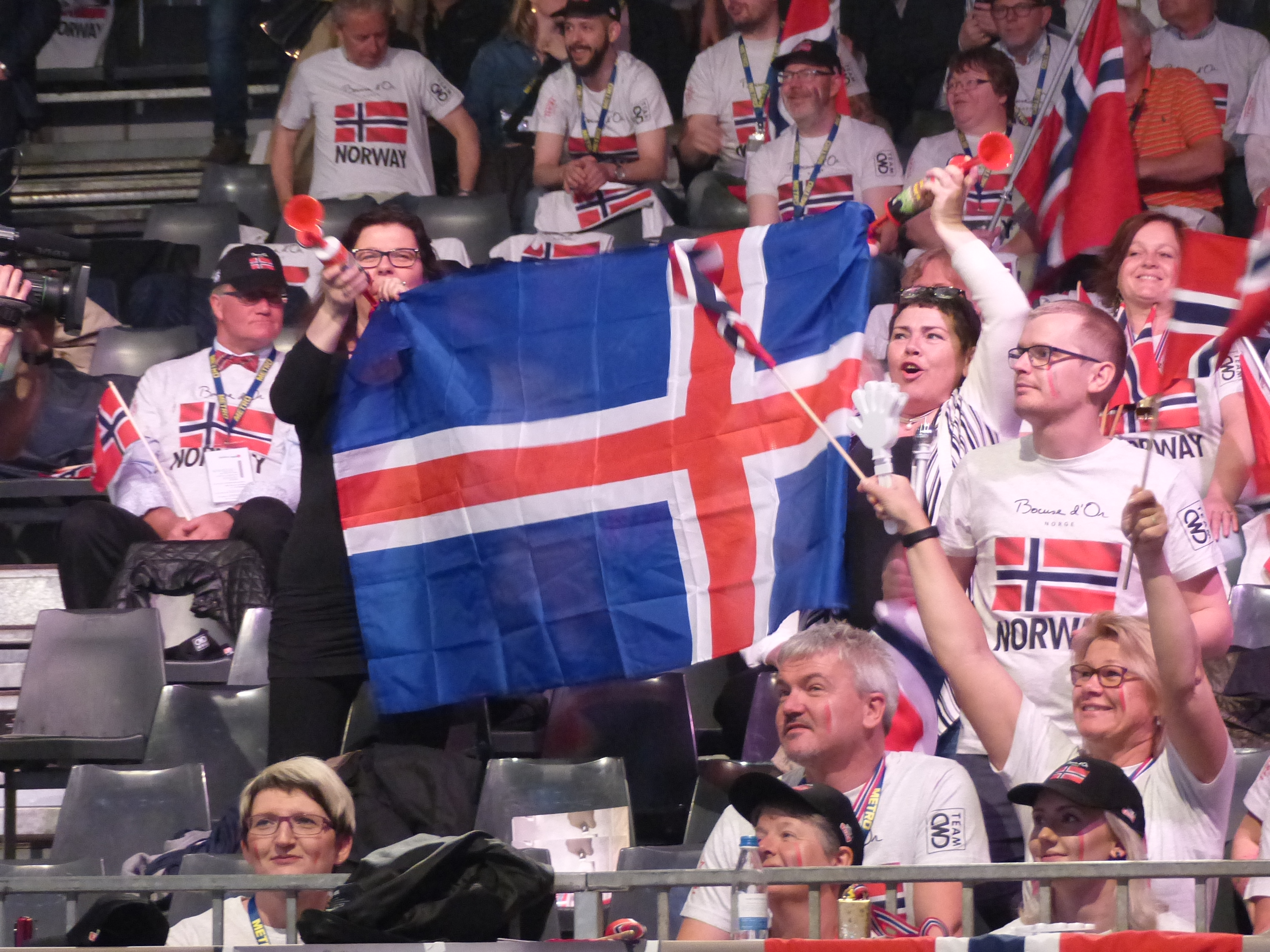 Fans of Norway. Taken on the 10th of May, 2016. Hungexpo, Budapest, Hungary. Bocuse d'Or – Selection Europe – Budapest. Sources